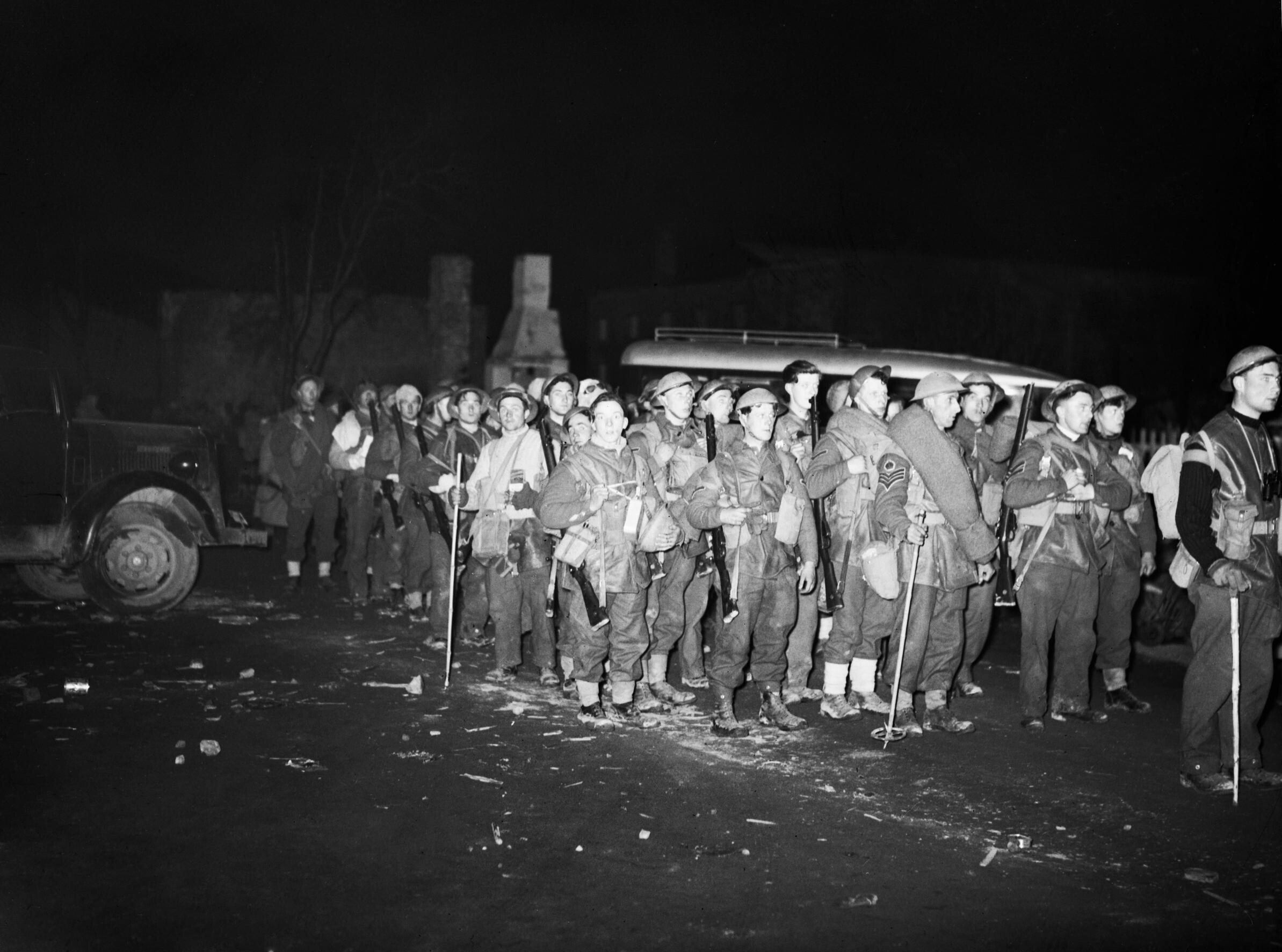 British troops arriving on the quayside at Namsos in Norway prior to evacuation, 2 May 1940. British troops arriving on the quayside at Namsos during the evacuation, 2 May 1940.